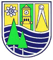 Logo del Instituto Profesional Virginio Gomez.